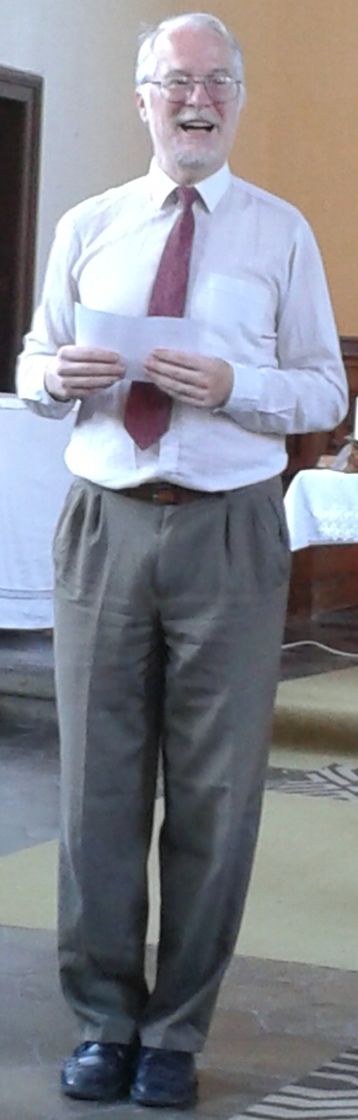 Michal Novenko (* 1962): Czech organist, composer and teacher. Before the concert in the church of St. Stephen in the small czech town Kvilda (Böhmerwald) on July 4, 2015